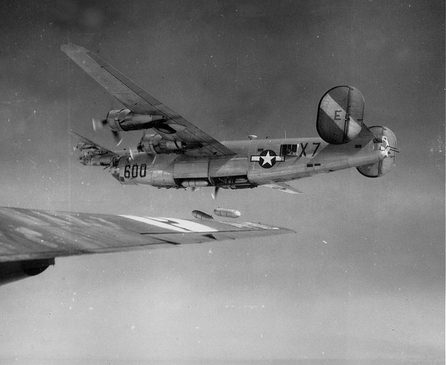 the 788th Squadron "Piccadilly Commando" dropping napalm contained in cardboard cannisters. The target was German fortifications around the port at Bordeaux